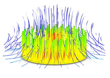 Round Pin Fin Heat Sink with Free Convection Fluid Flow Trajectories